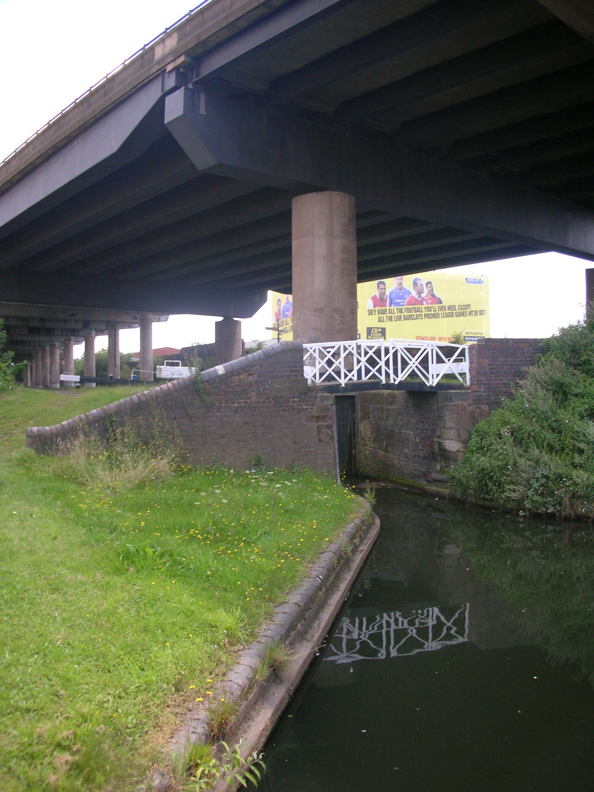 Spon Lane top lock and Spon Lane Junction (signpost behind lock, to left of large pillar) beneath the M5 motorway near Oldbury, West Midlands, England. Photographed by me 9 August 2007. Oosoom